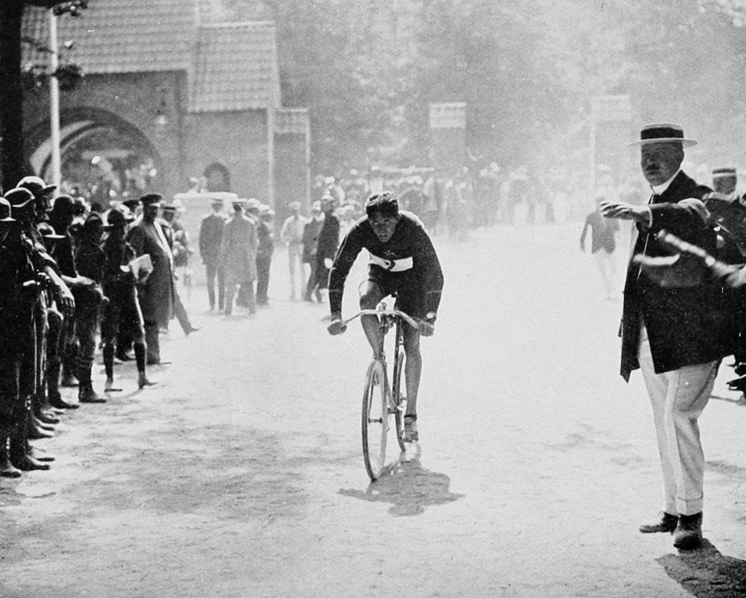 Rudolph Lewis at the 1912 Olympics